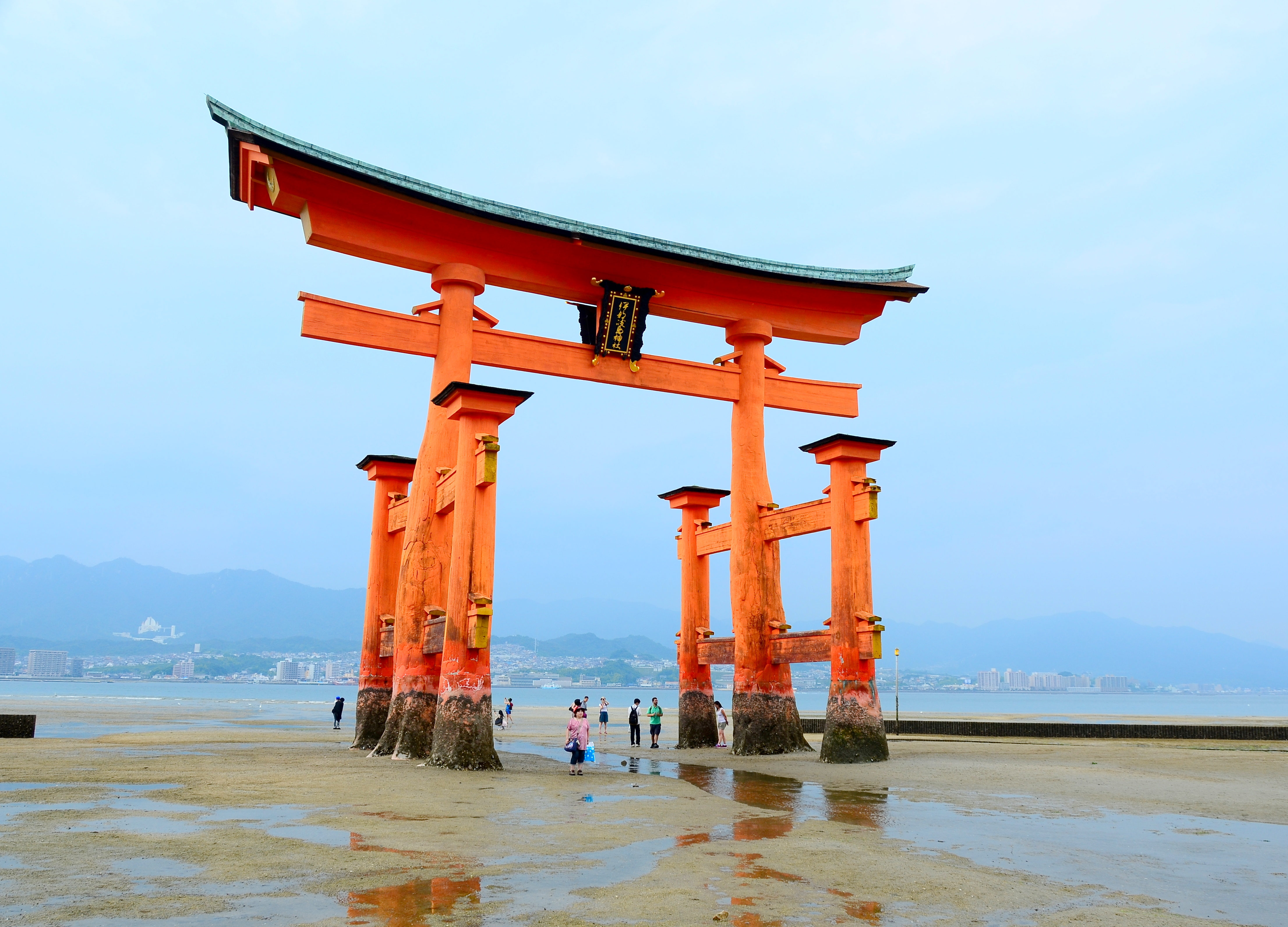 The torii gate at Itsukushima Shrine on the island of Itsukushima (popularly known as Miyajima) in Hiroshima Prefecture, Japan